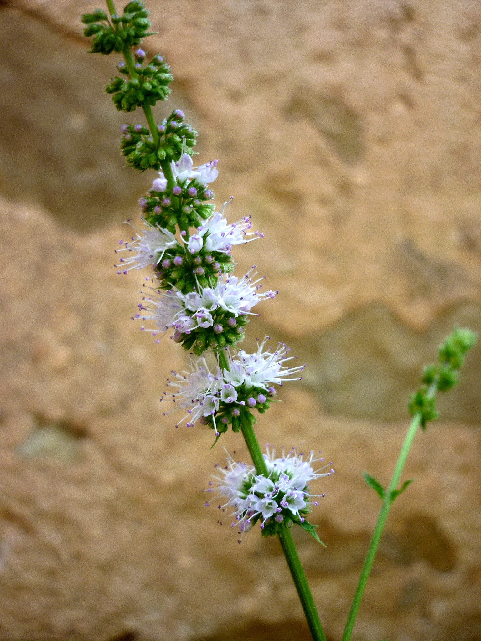 Mentha spicata. In Torà (Segarra- Catalunya). On 430 m. altitude